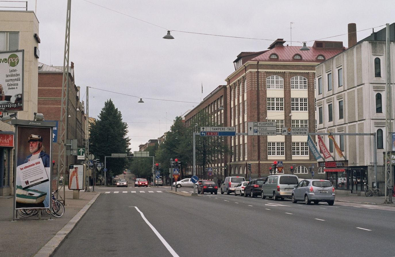 An intersection in Tammela/Tulli, Tampere, Finland. Streets: Tammelan puistokatu, up to the intersection; Itsenäisyydenkatu, left-right; and Yliopistonkatu, forward after the intersection. The red brick building on the right is the former Attila shoe factory. (The image has been rotated and cropped somewhat, as the original photo was rather tilted.)